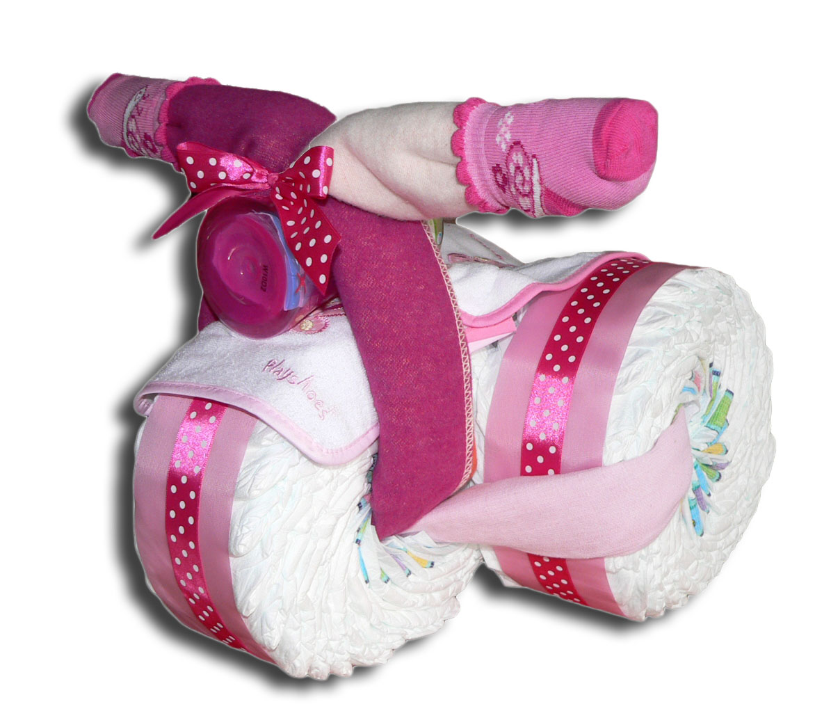 diaper cake